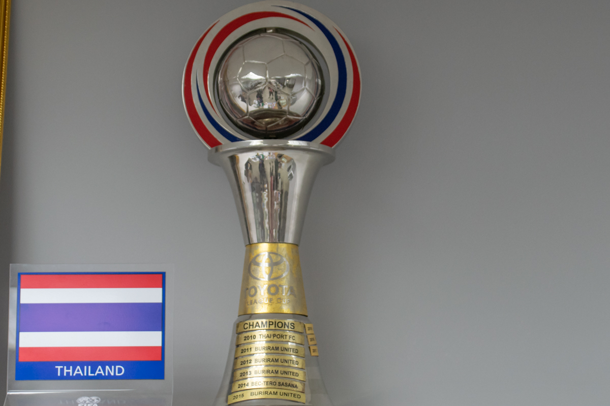 Toyota League Cup Trophy (Thailand)